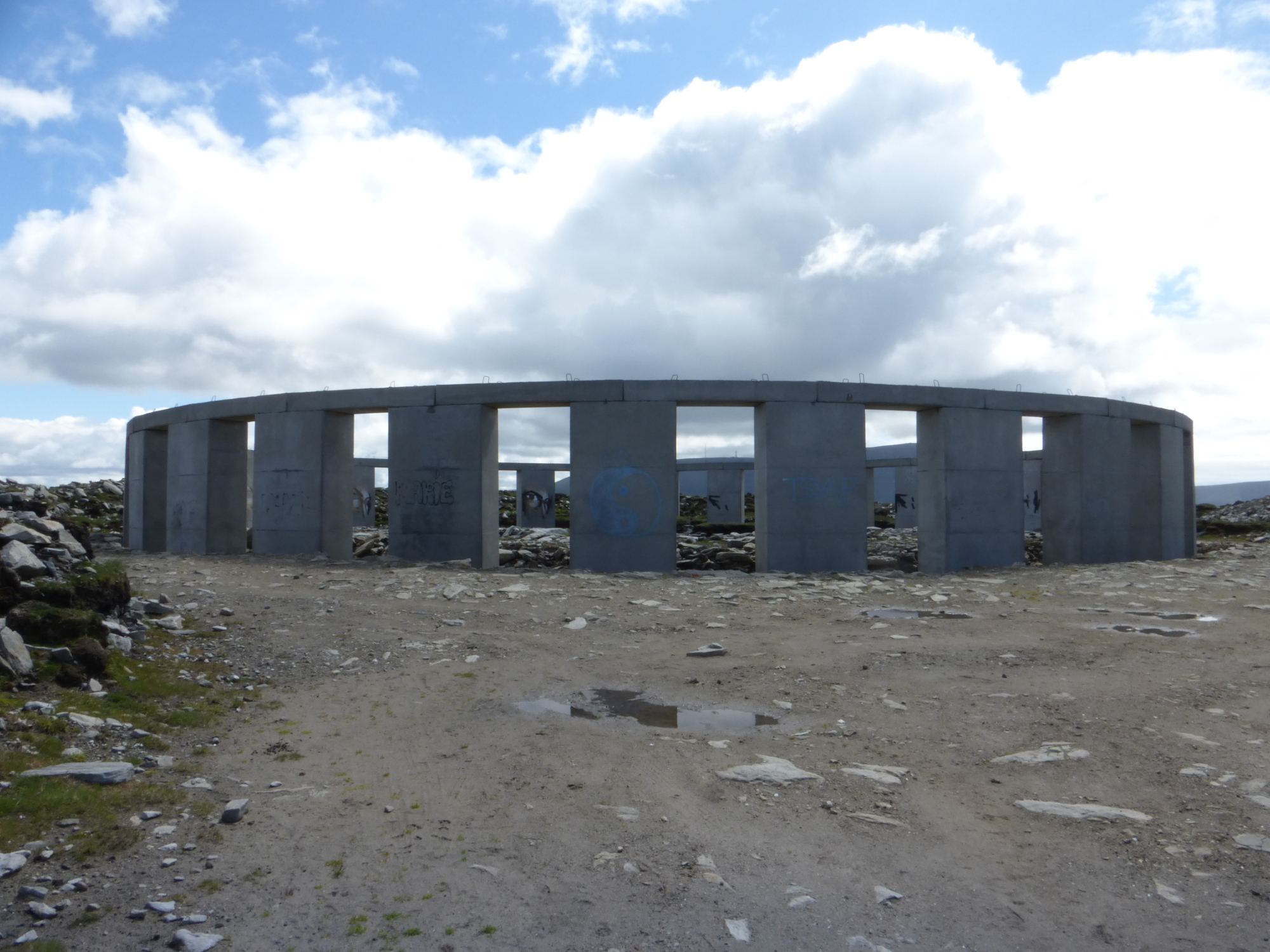 Achill Henge exterior, June 2016